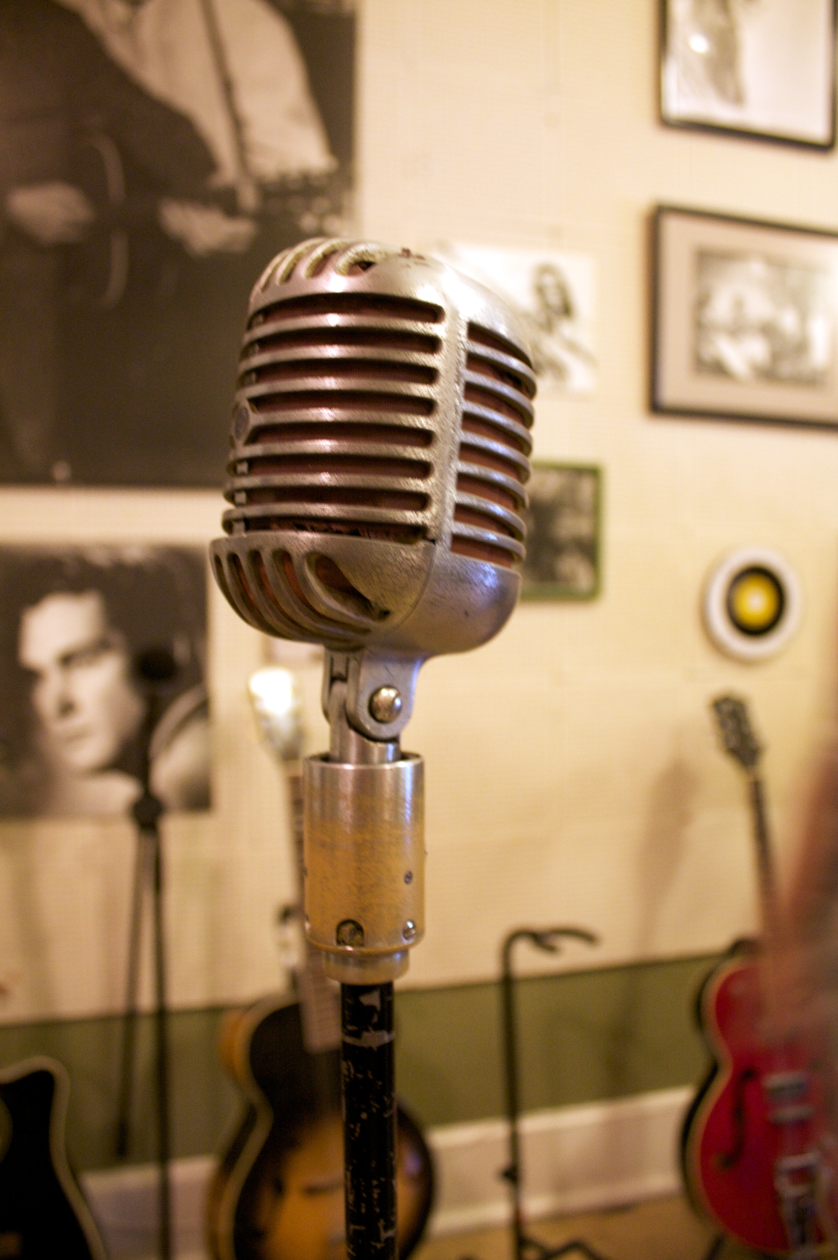 microphone